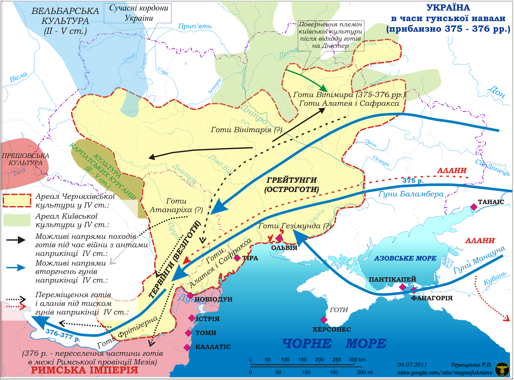 Earth modern Ukraine during the Hun invasion